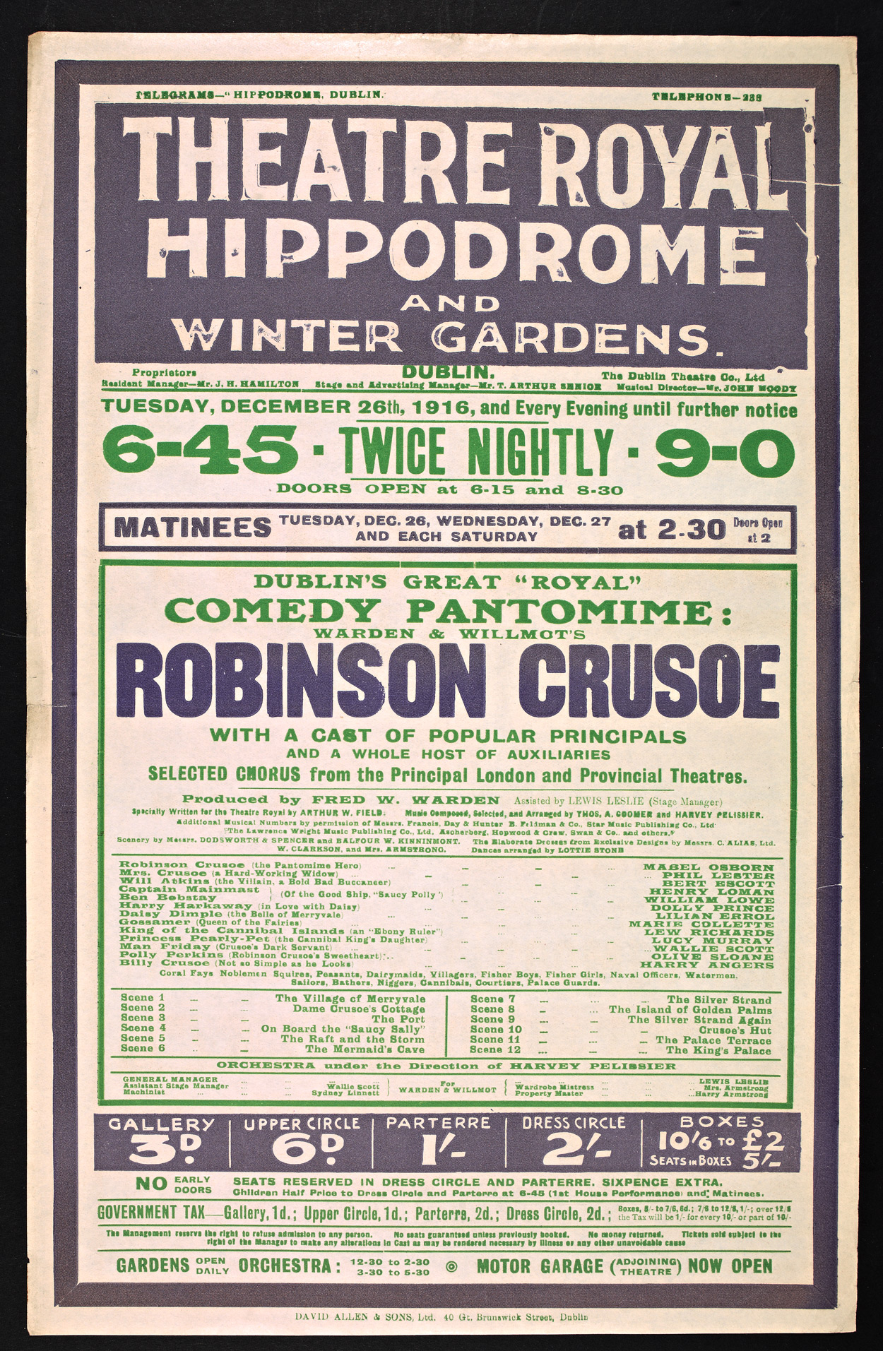 Just around the corner from the Queen's, Warden & Willmot's Robinson Crusoe was wowing audiences at the Theatre Royal on Hawkins Street at Christmas 1916... Date: December 1916 Printed by: David Allen & Sons, 40 Great Brunswick Street, Dublin Size: 44 x 29 cm NLI Ref.: EPH E336